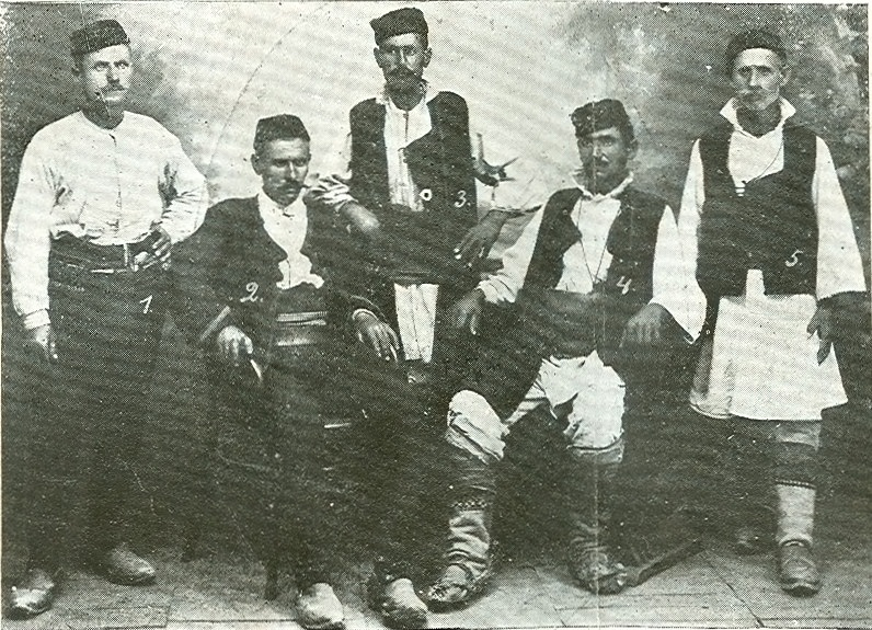 Group of men from Kadino Selo, near Prilep, Macedonia